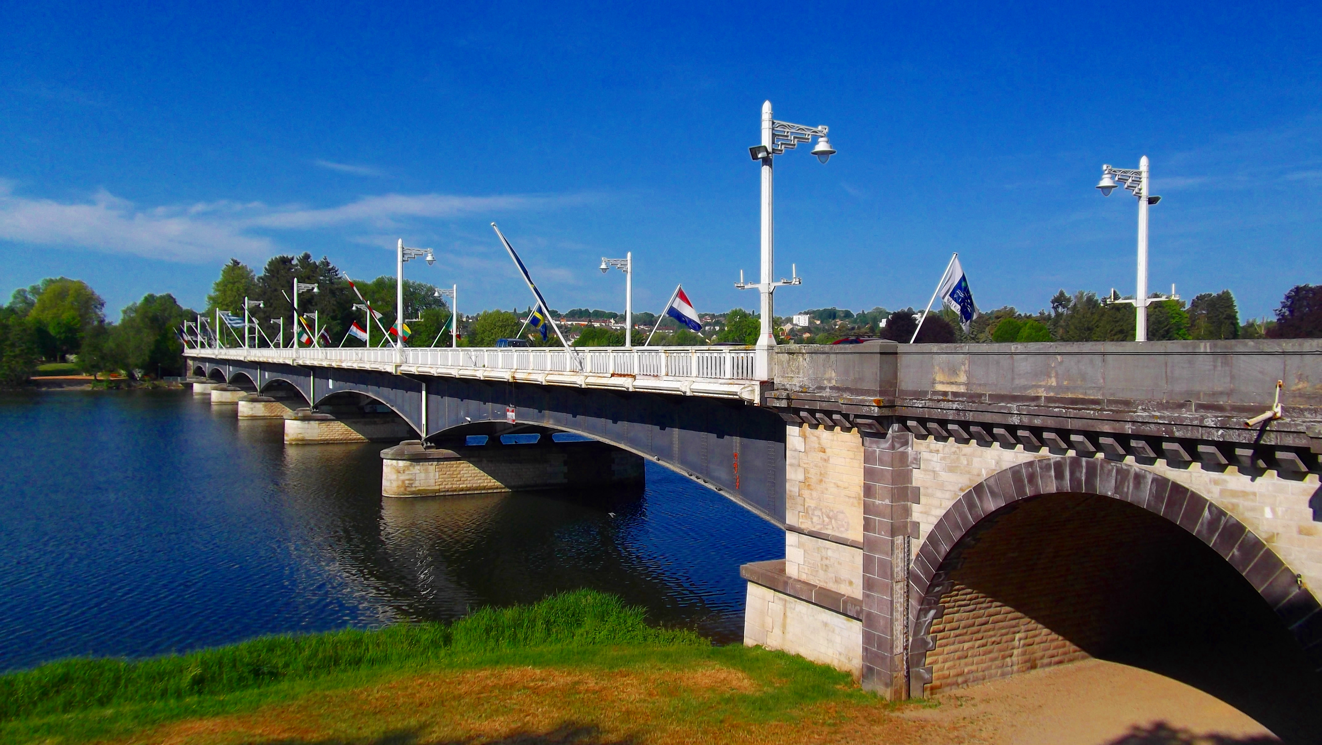 Bellerive's bridge seen from Parks Vichy.